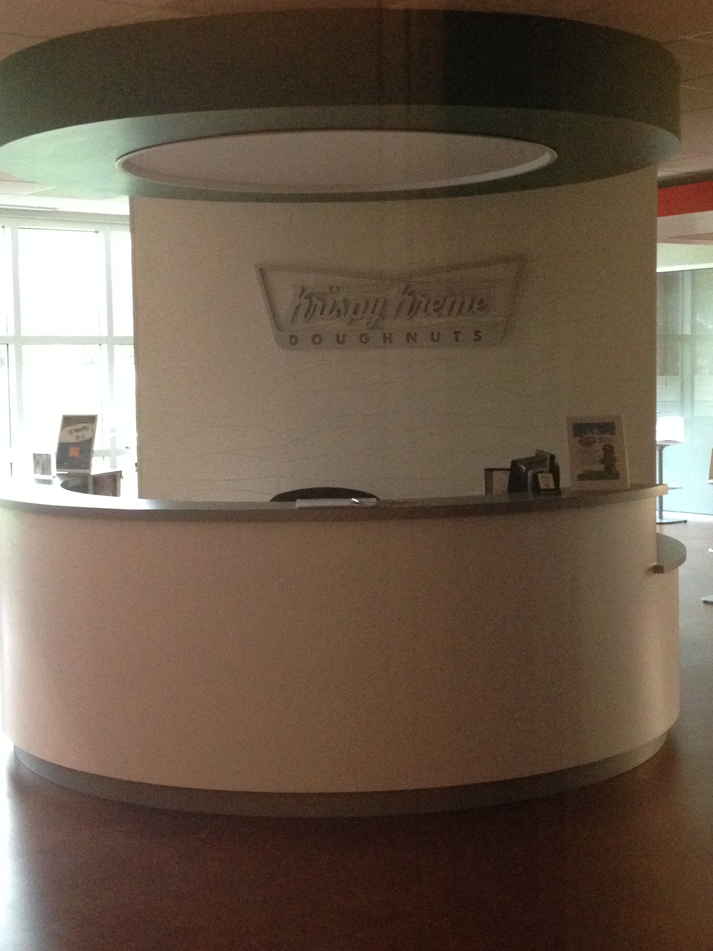 Inside of Krispy Kreme Headquarters